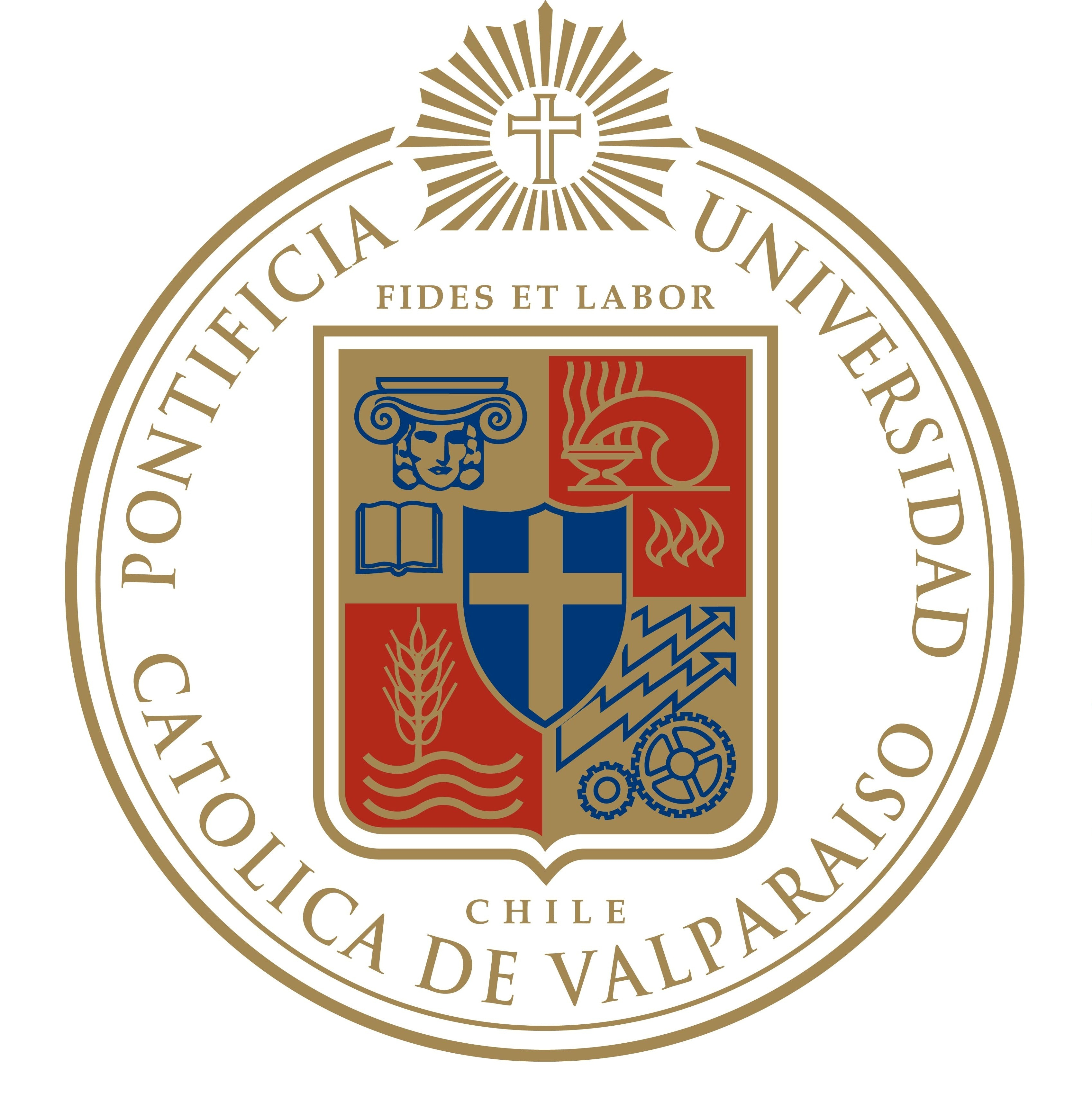 Logo PUCV Chile